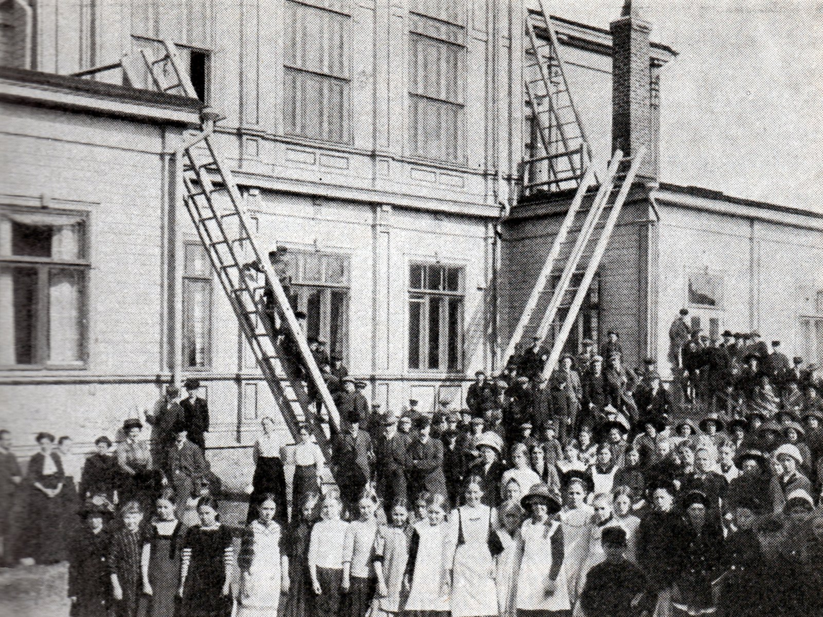 Pupils on the schools yard of the former upper secondary school of Kemi. Built 1896, destoryed in a fire in 1931.